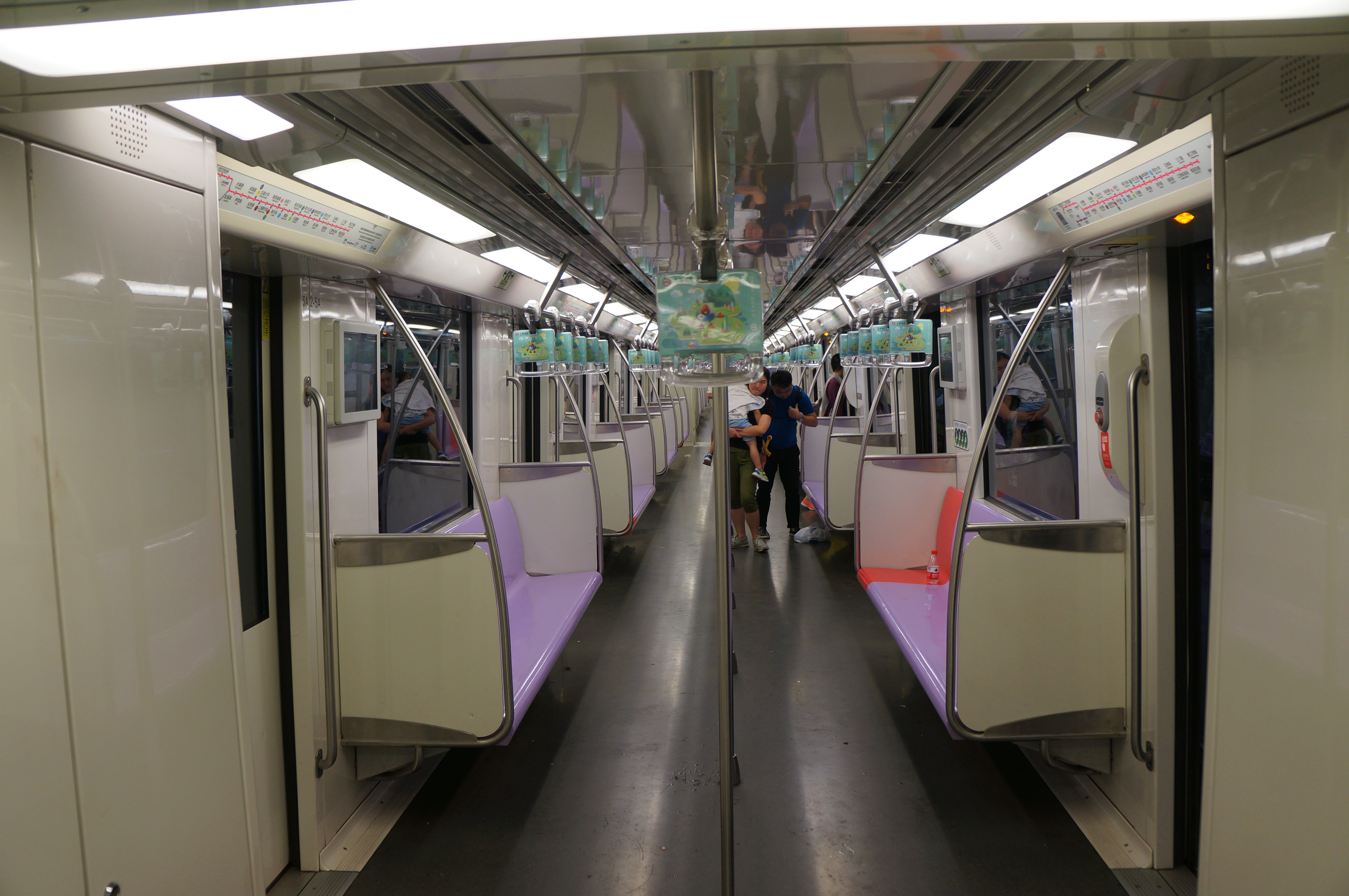 201609 Interior of AC13